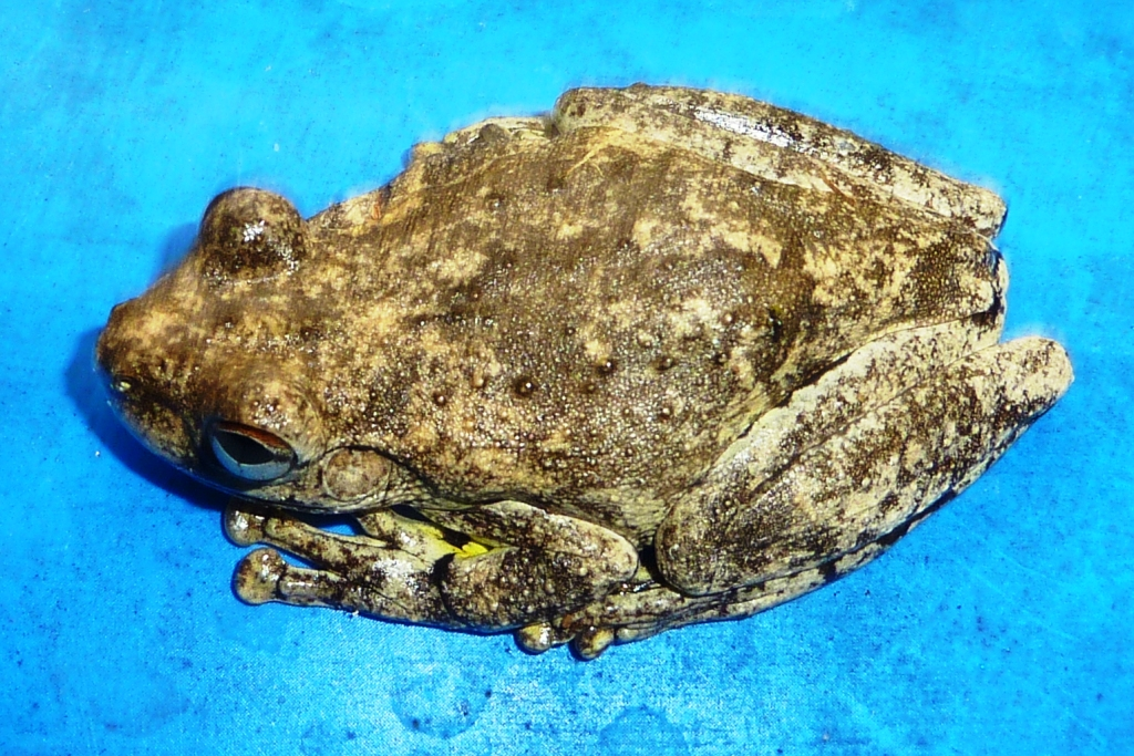 I took this photo of a Roth's tree frog (Litoria rothii) at my home outside Cooktown, Queensland this afternoon.